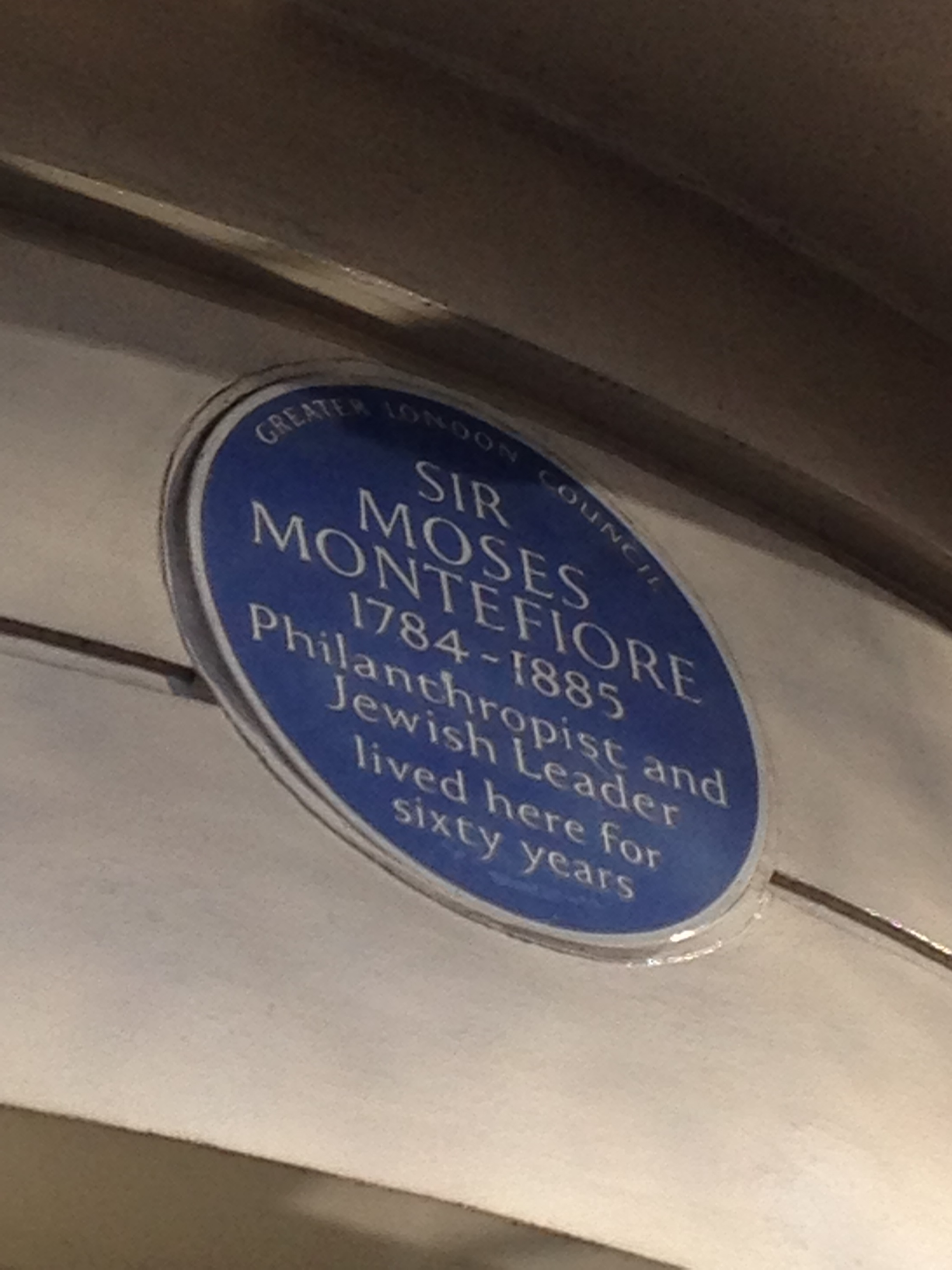 The Greater London Council blue for Moses Montefiore at 99 Park Lane, Mayfair, W1K 7TH in the City of Westminster.